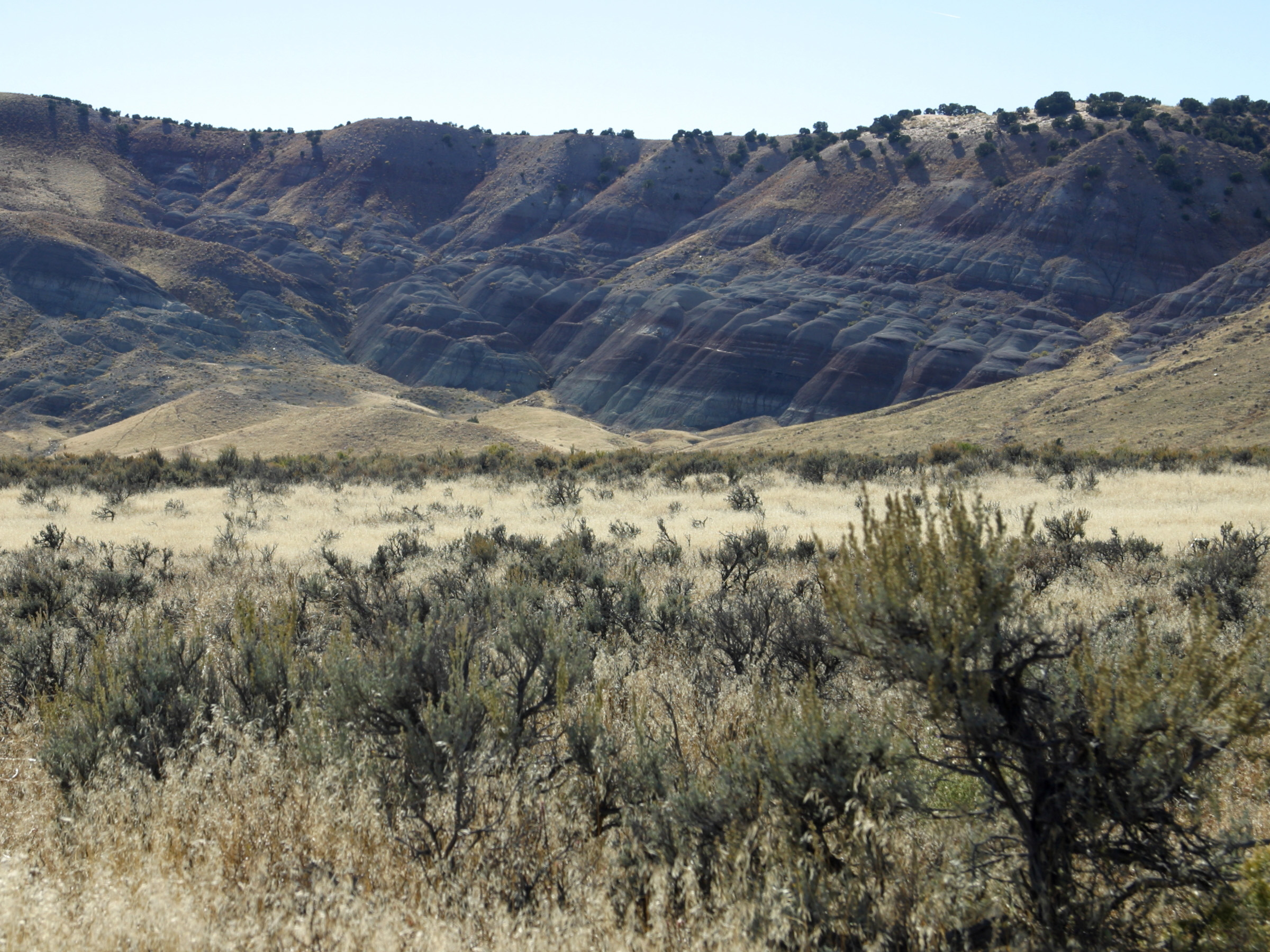 The distictive banding of the Morrison Formation, a group of rock layers that occur throughout Dinosaur National Monument. The formation originated as muds and sands laid down by ancient rivers, and some of its outcrops have been found to contain 150-million-year-old dinosaur fossils like those found at the monument's Dinosaur Quarry.